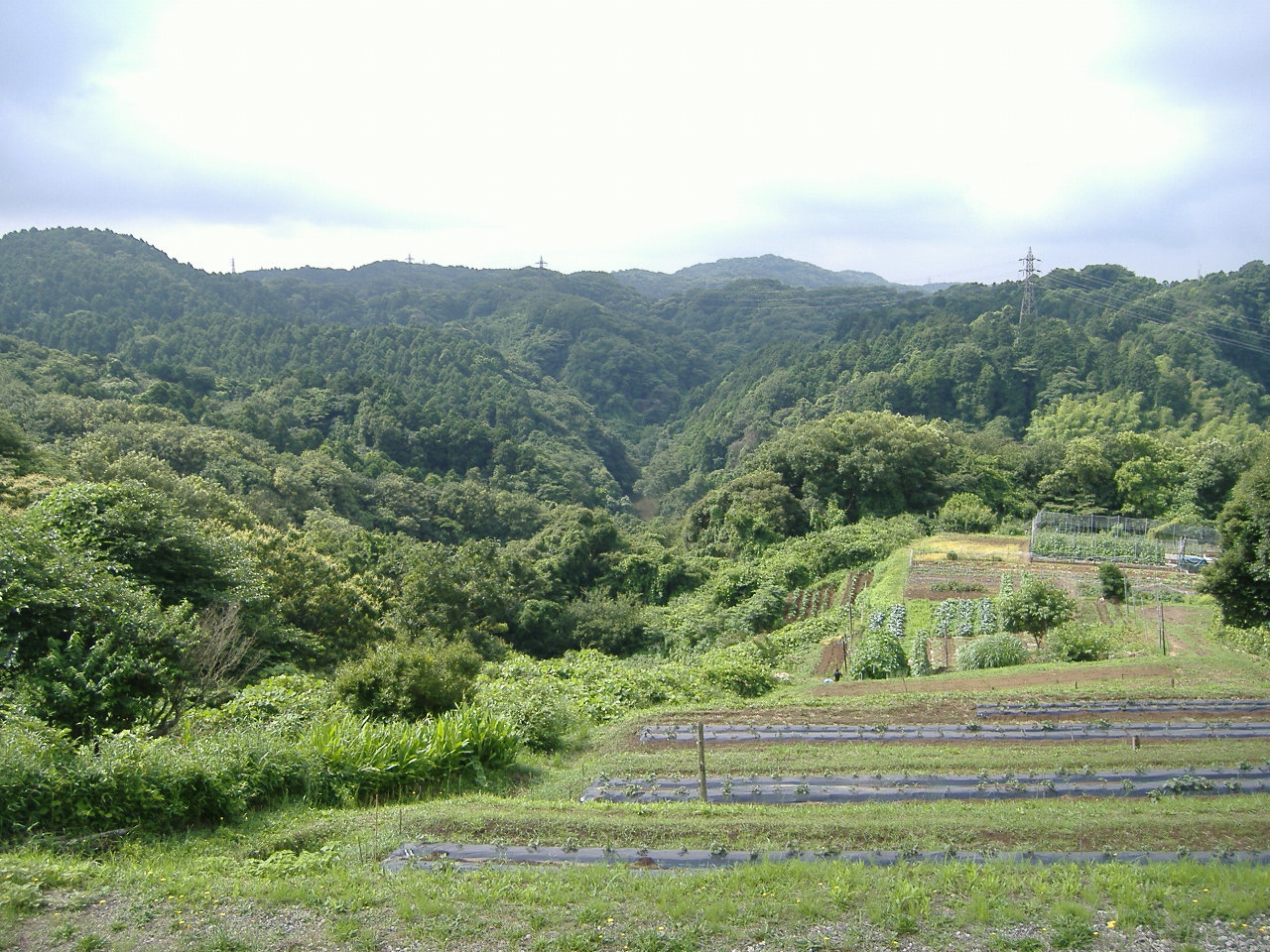 Segami-Forest (Yokohama, Japan)